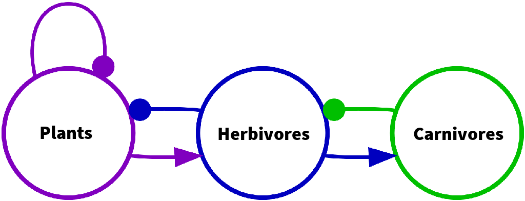 A three-variable signed digraph representing causal relationships forming a simple trophic system comprised of plants, herbivores and carnivores.